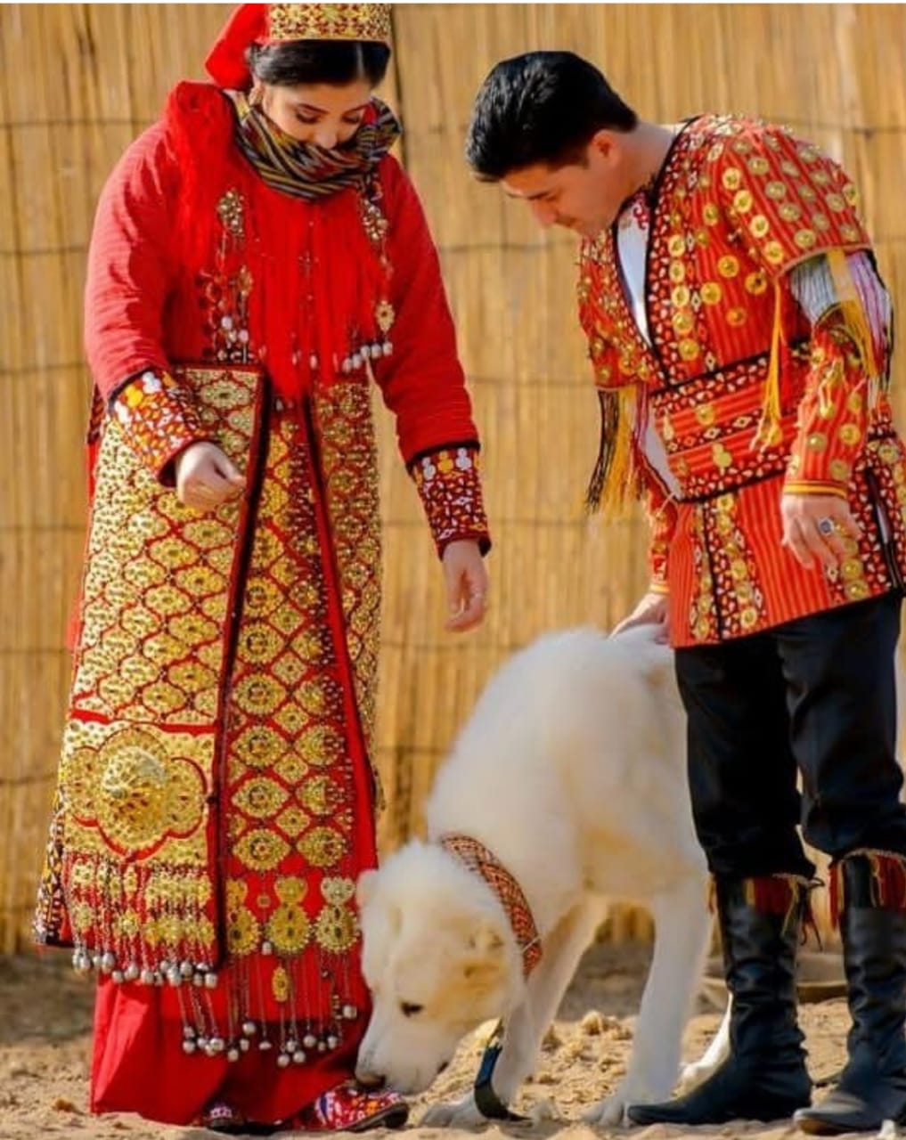 Traditional dressed bride and groom with Alabay dog